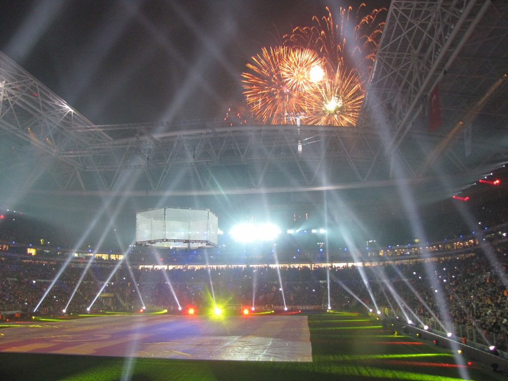 Ali Sami Yen Spor Kompleksi Türk Telekom Arena opening